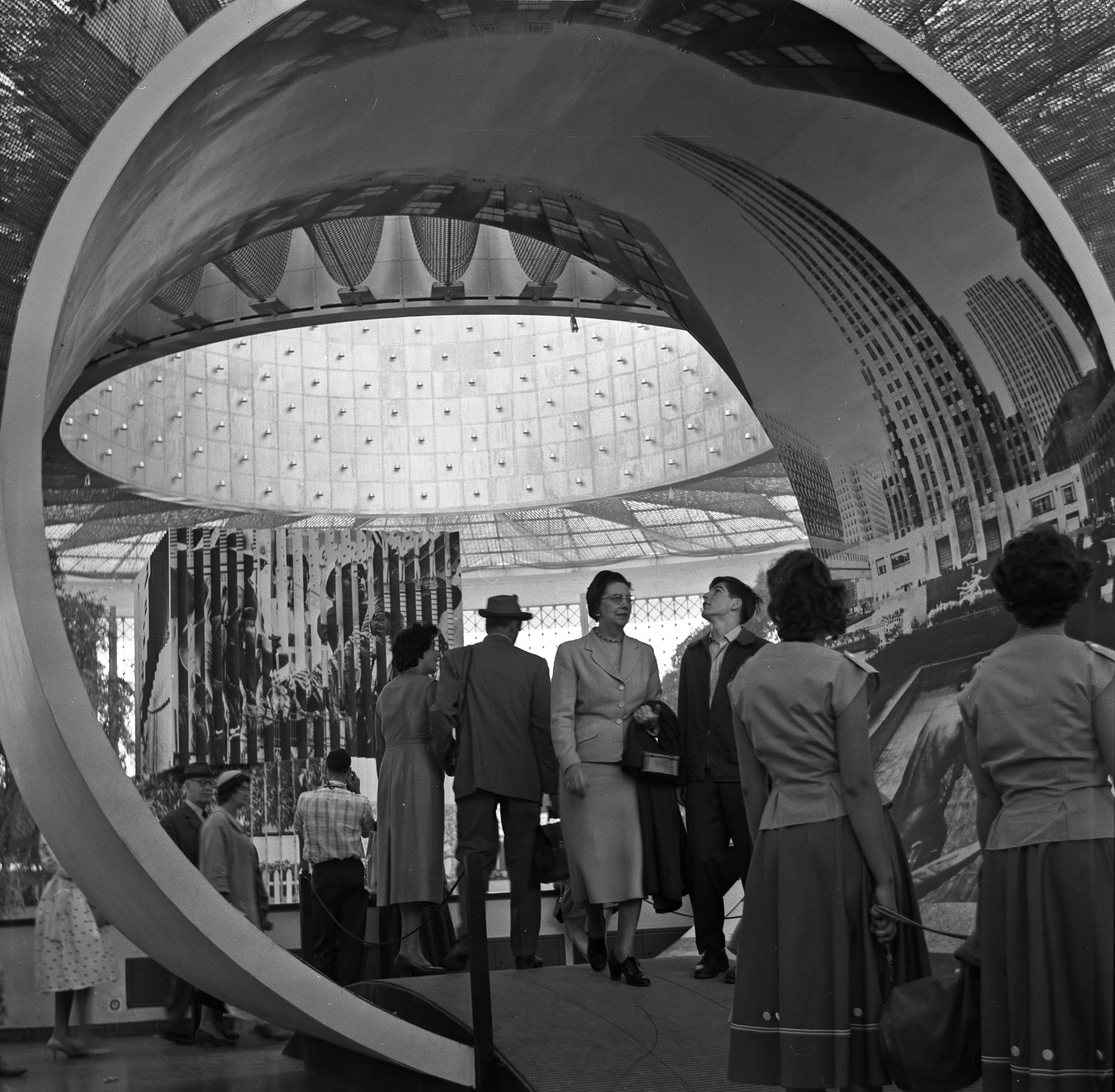 Expo 1958 in the building of the USA